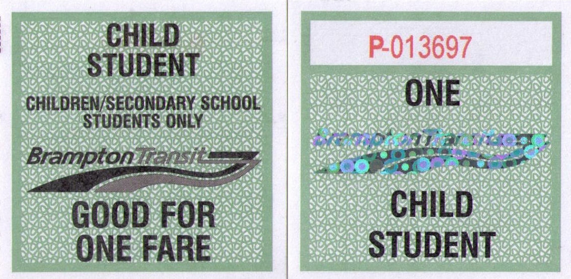 2008's renewed Brampton Transit Child/Student ticket